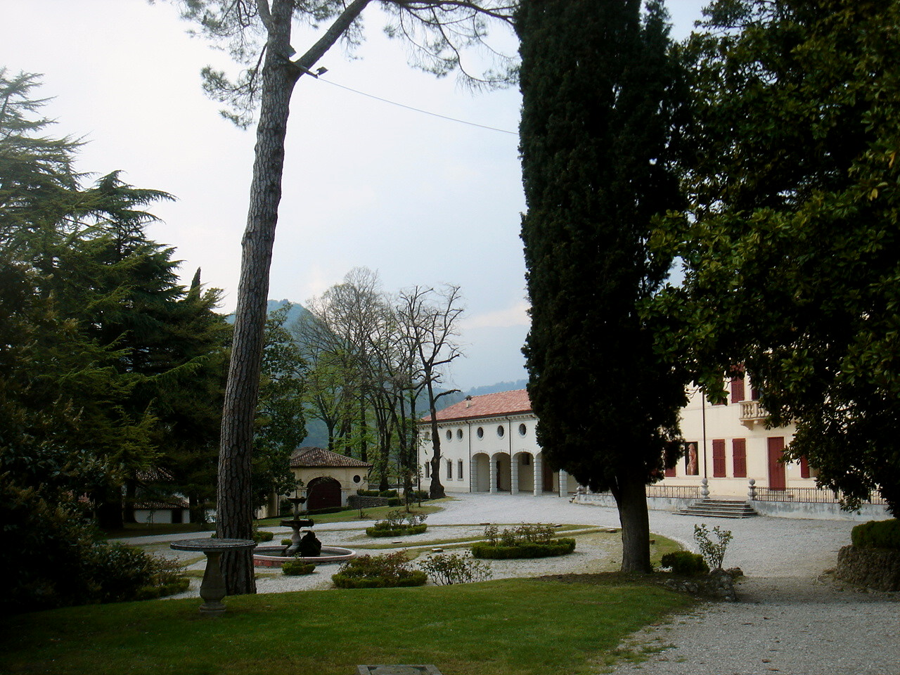 Solighetto (Pieve di Soligo): Villa Brandolini d'Adda